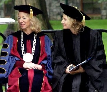 University of Pennsylvania's 250th Commencement:Penn President Dr. Amy Gutmann and Jodie Foster